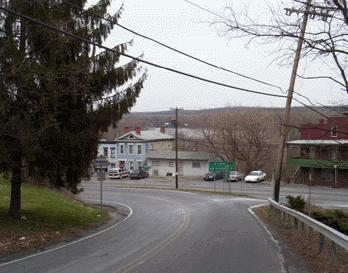 Sign depicting the eastern terminus of New York State Route 143 at NY 144 in Coeymans, New York.